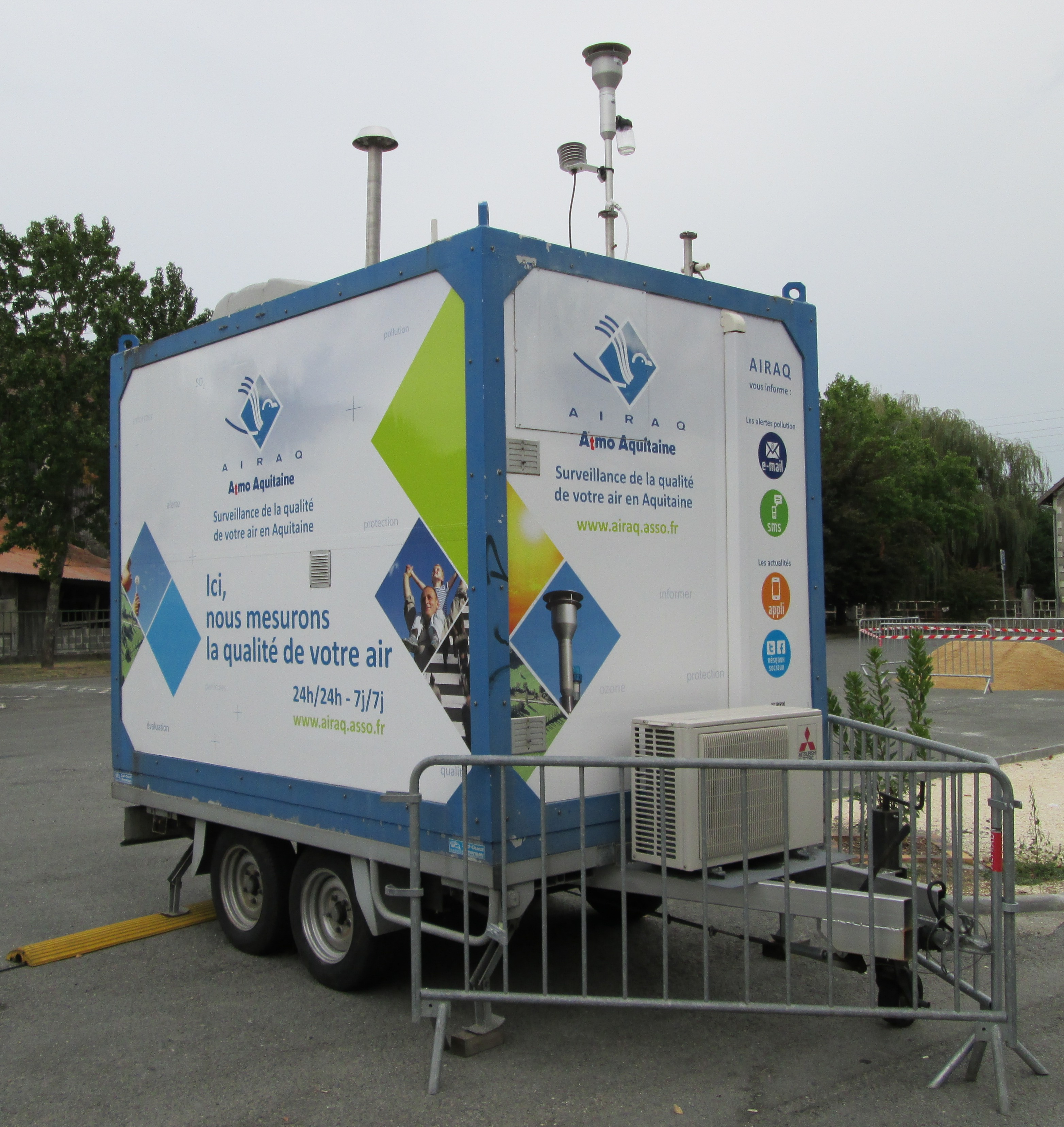 Air quality monitoring station (lab) in Aquitaine by Airaq association, France.